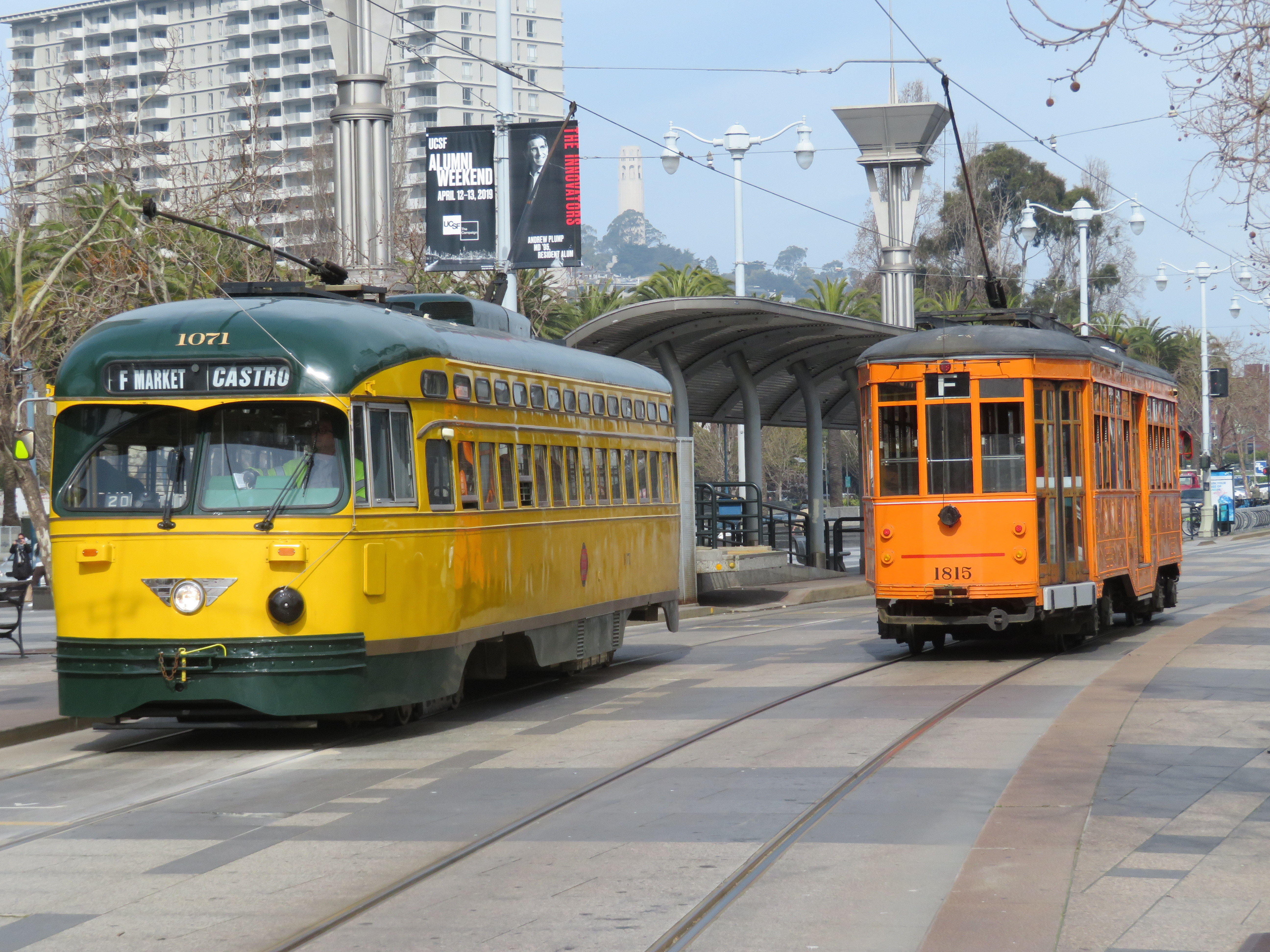 Two F Market & Wharves streetcars - #1071 headed to Castro and #1815 to Fisherman's Wharf - pass near the Ferry Building stop in March 2019